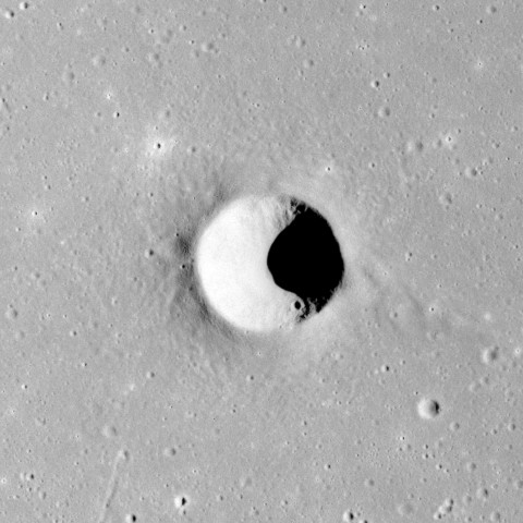 Kuiper, on the moon. Sun elevation 22 deg., spacecraft altitude 124 km.